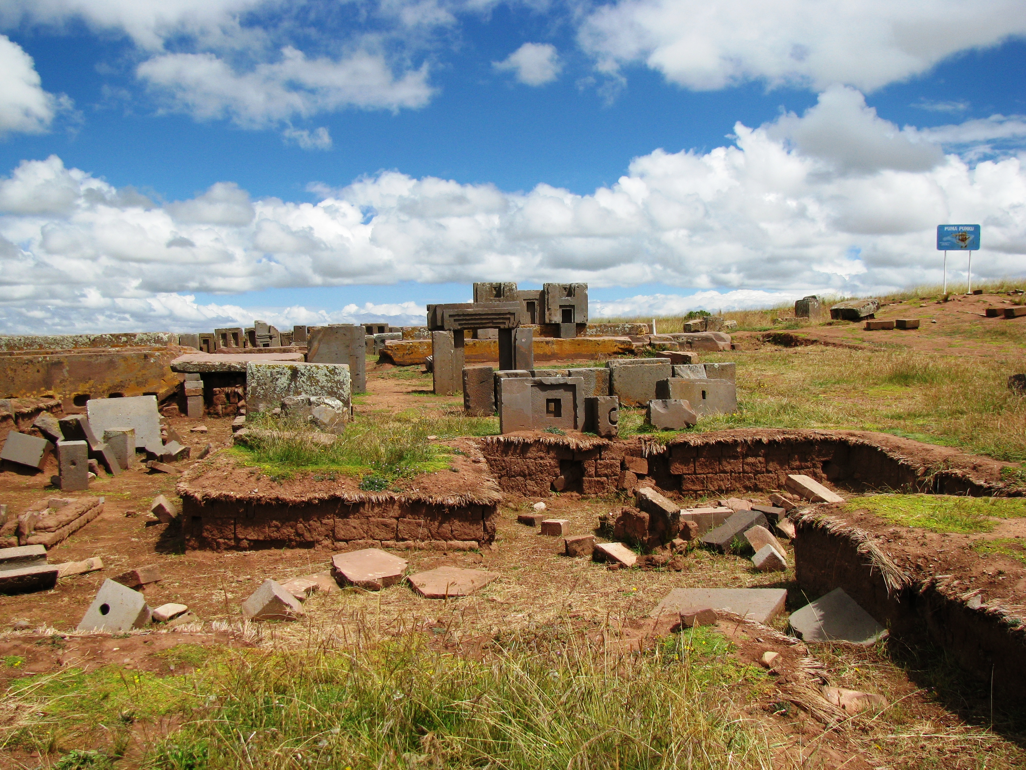 Puma Punku